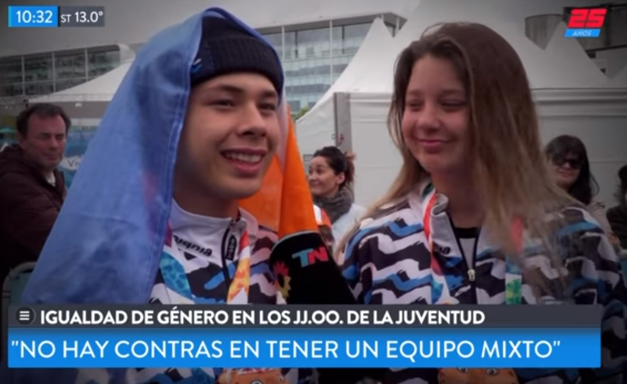 Iñaki Iriartes & Agustina Roth - Gold Medal - BMX Mixt - YOG Buenos Aires 2018